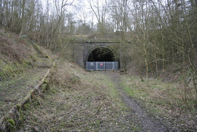 Bourne to Little Bytham Railway Tunnel Entrance. This is in the cutting at the Bourne end and is the only tunnel built on this line. The line closed in the 1950s I believe.